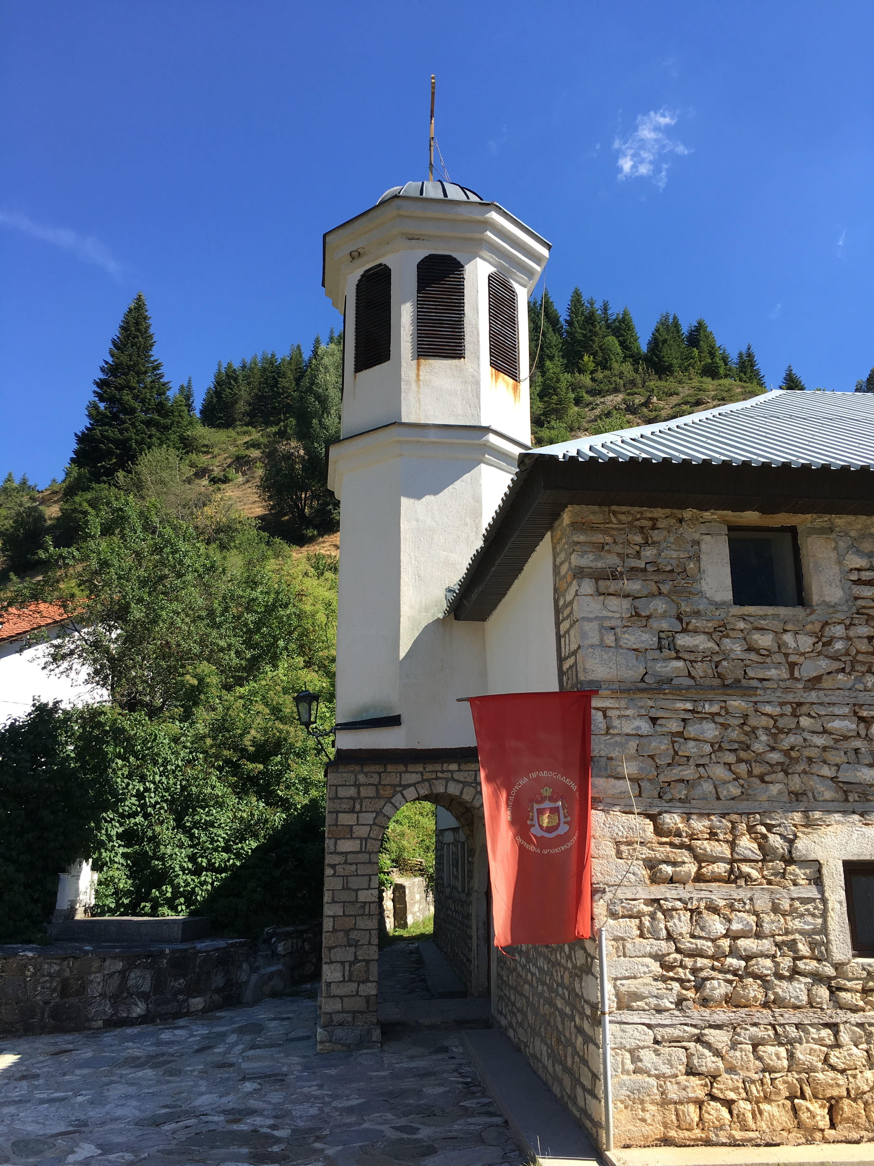 The bell tower of St. Nicholas Church in the village of Vrben